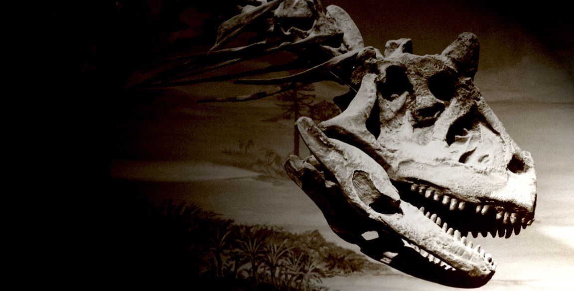 Close-up of the skull of a Carnotaurus